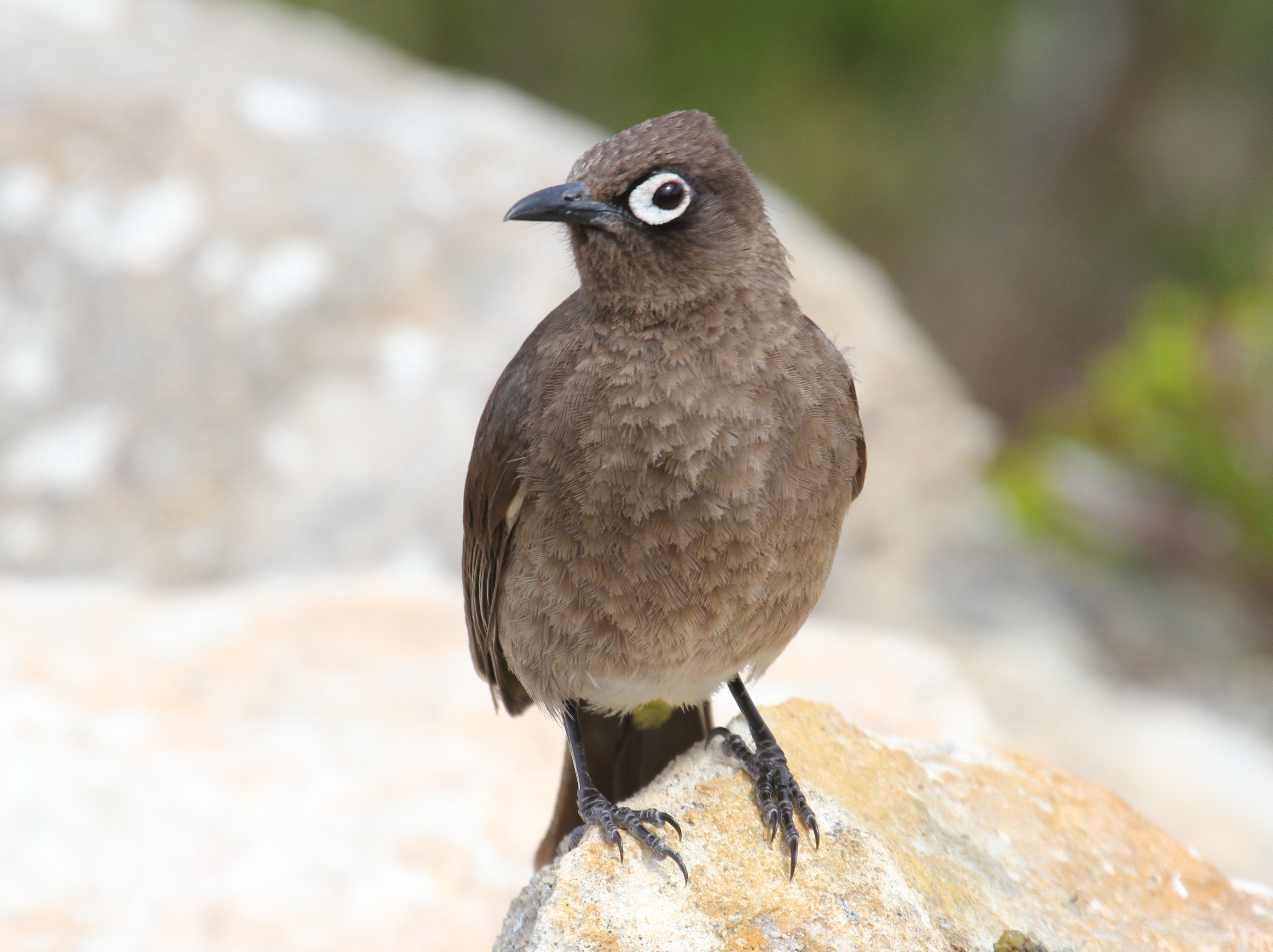 Cape Bulbul (Pycnonotus capensis) - De Hoop, South Africa